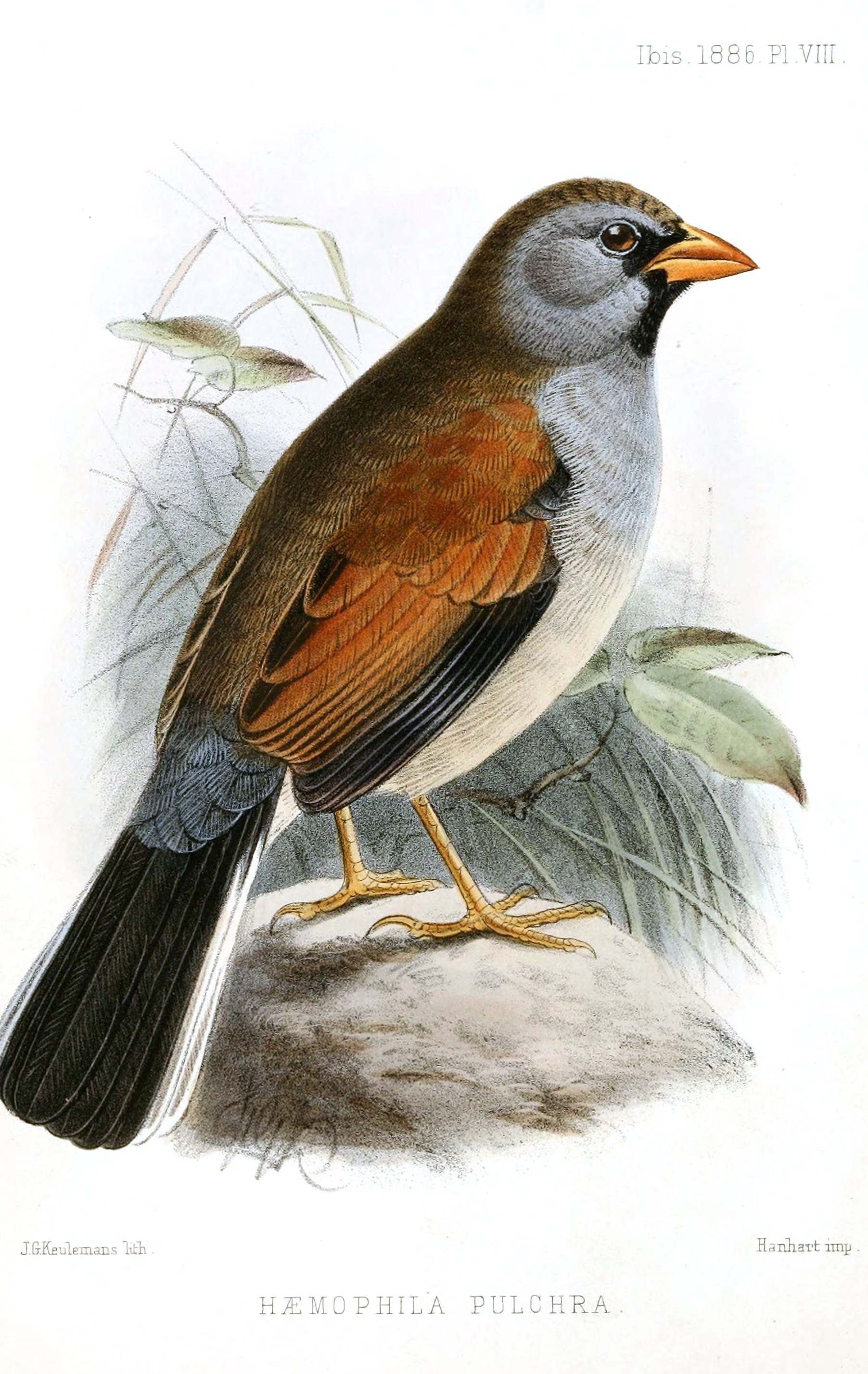 Incaspiza pulchra formerly Haemophila pulchra